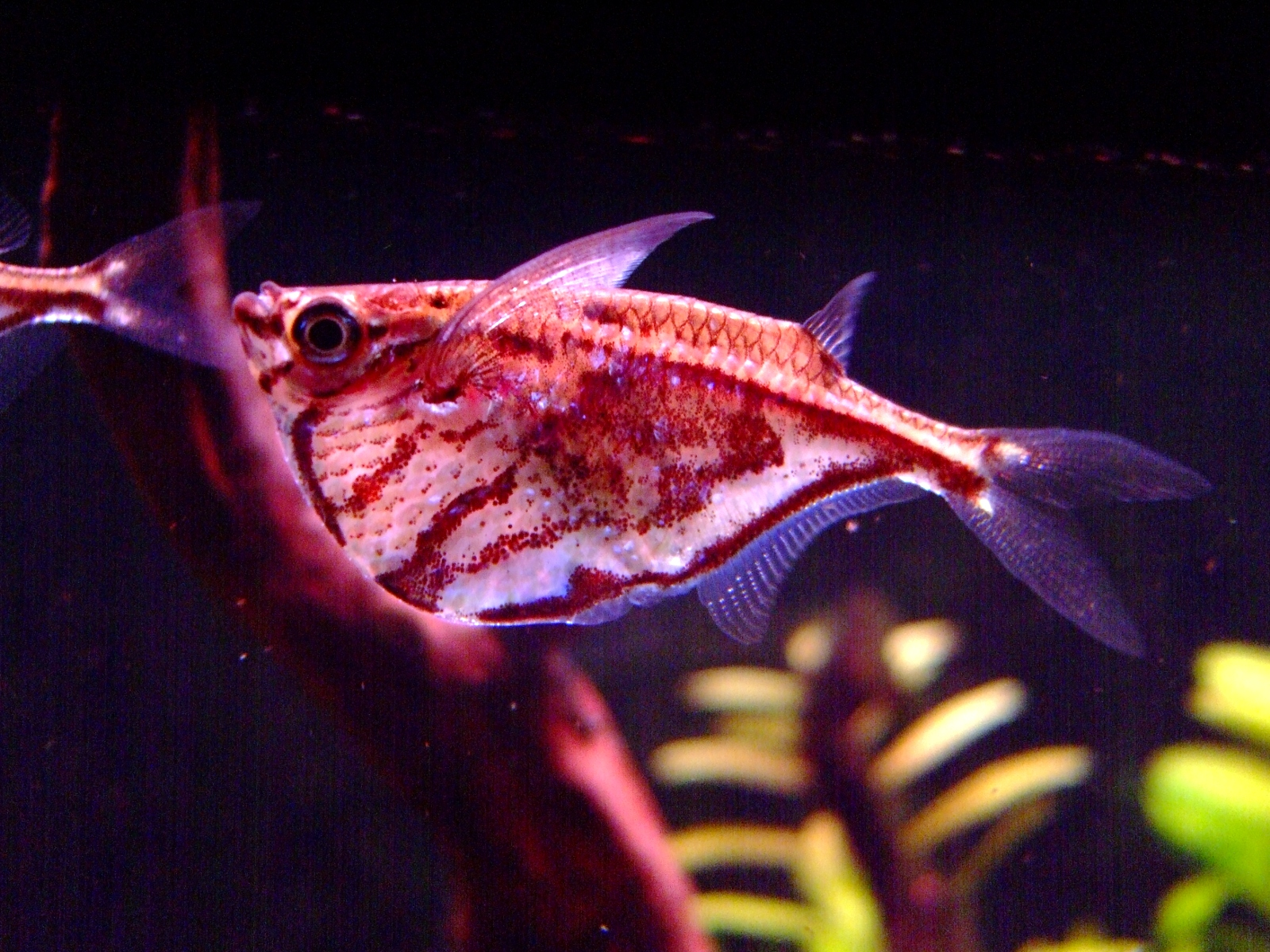 Carnegiella strigata